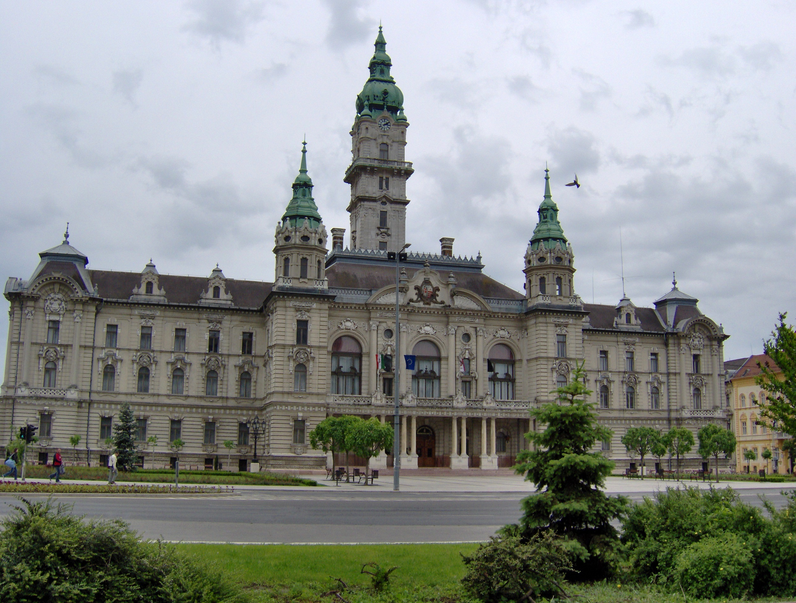 Győr, City hall